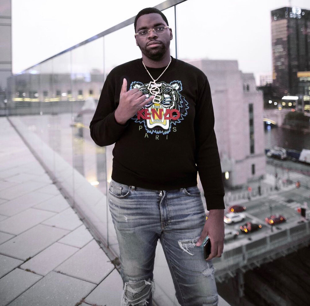 Philadelphia record producers known as Dougie On The Beat.